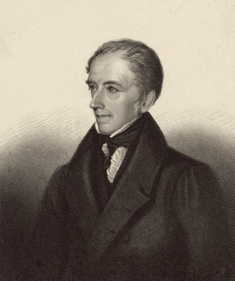 A portrait from the Welsh Portrait Collection at the National Library of Wales. Depicted person: James Montgomery – British editor, hymn writer, and poet (1771-1854)